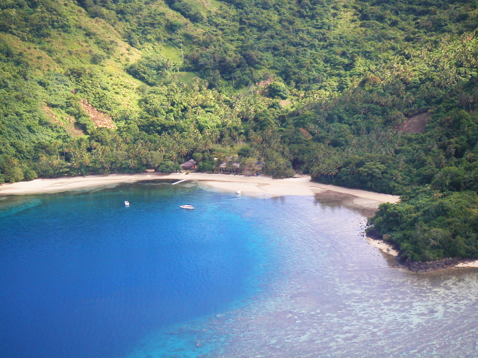 Aerial view of Kulu Bay Resort - check out all the reefs surrounding the bay. Makes for great snorkeling and diving